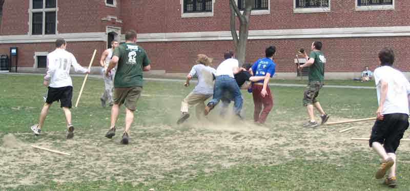 Image of the first Knattleikr game at Clark University. The one that started it all. Photo by Alexis Close, edited by David Pugh.